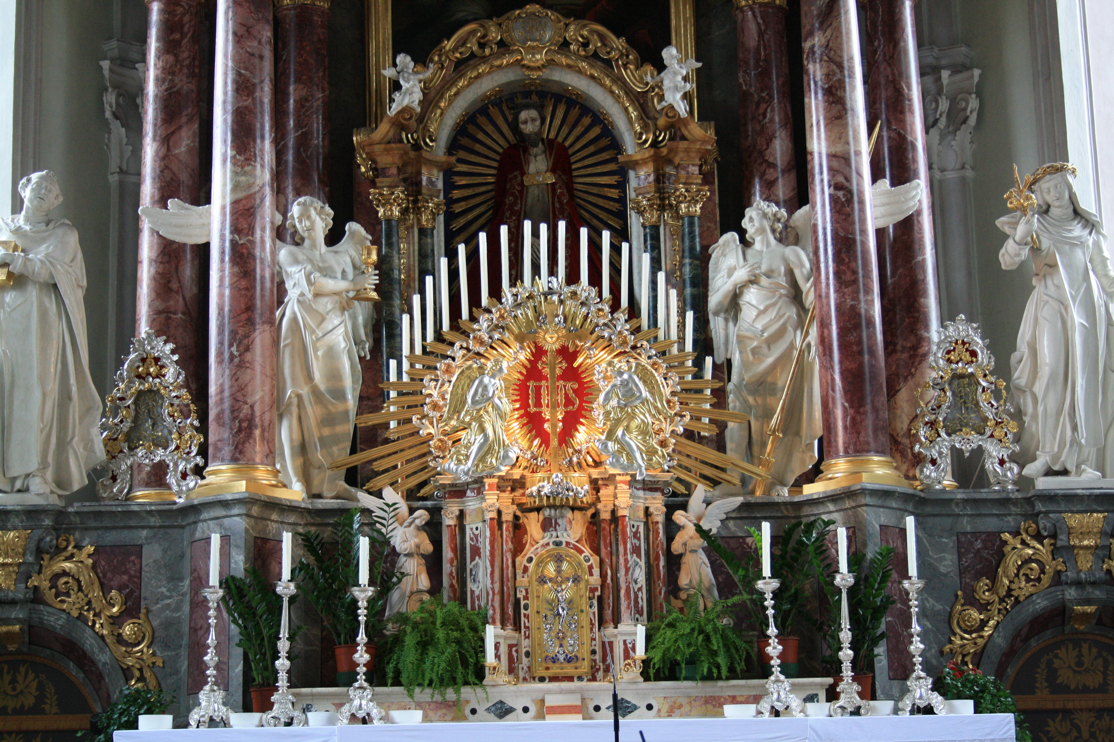 Austria, Tyrol (state), Pfons, Mariä Himmelfahrt. The high altar close up.